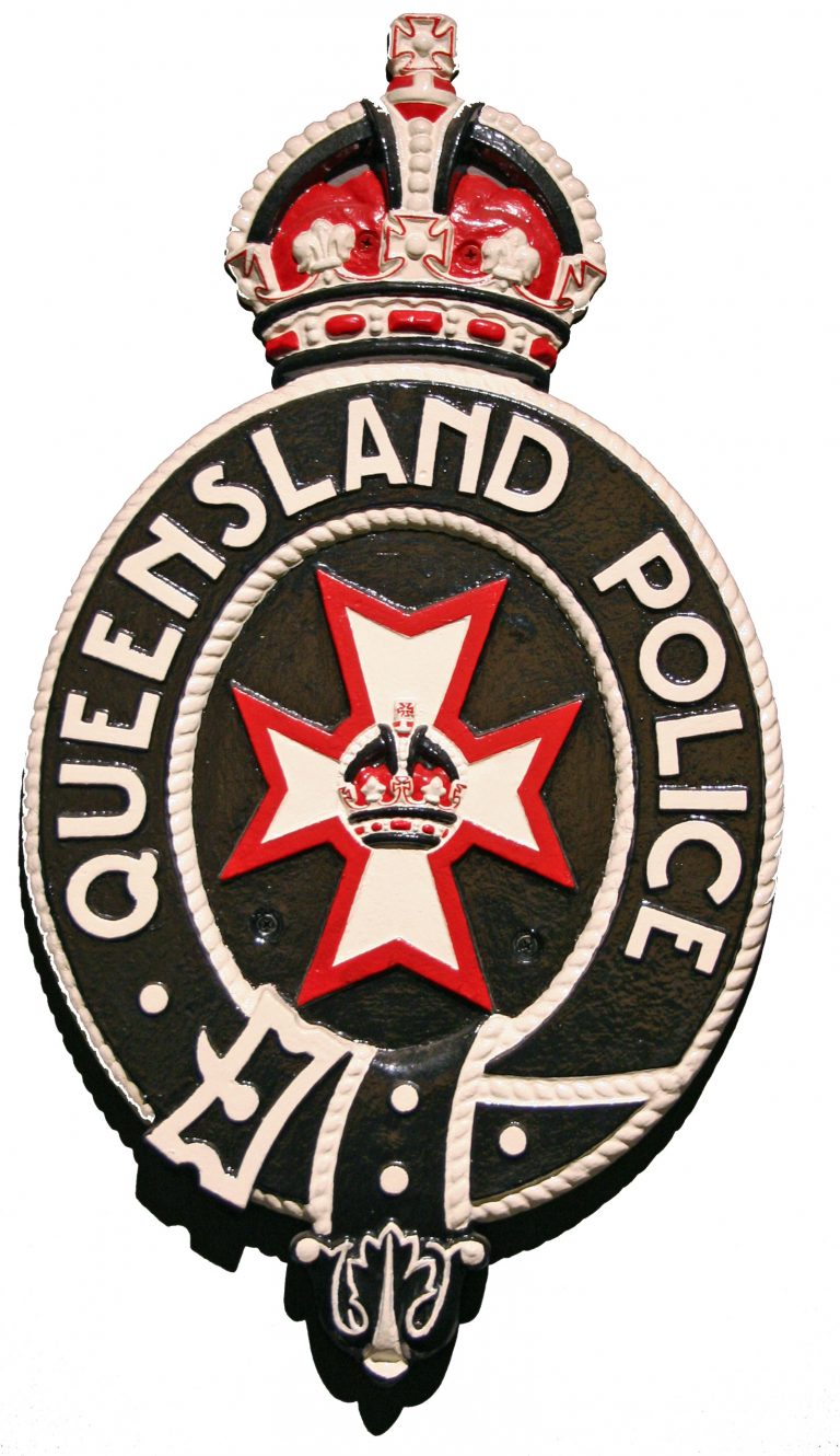 This cast iron Queensland Police Station Badge was use as a station identifier between 1911 and 1958. Image Courtesy of the Queensland Police Museum.